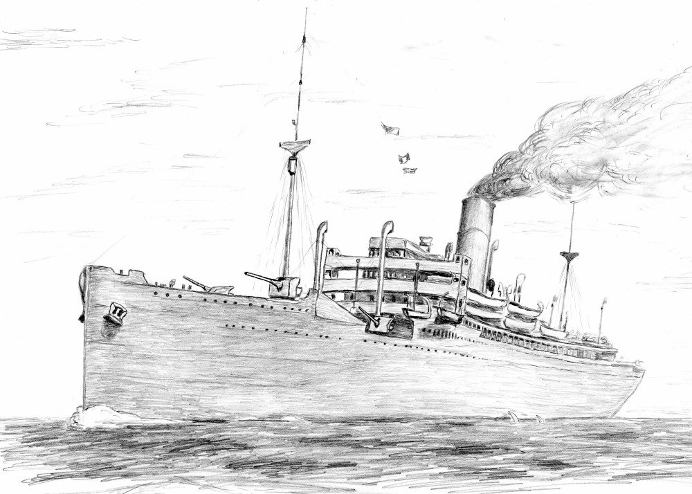 Armed merchant cruiser HMS Jervis Bay